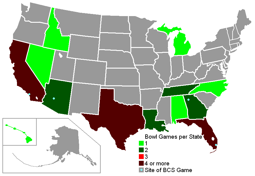 derived from :Image:BlankMap-USA-states.jpg; map of states with 2005-06 NCAA football bowl games schools (and their division)